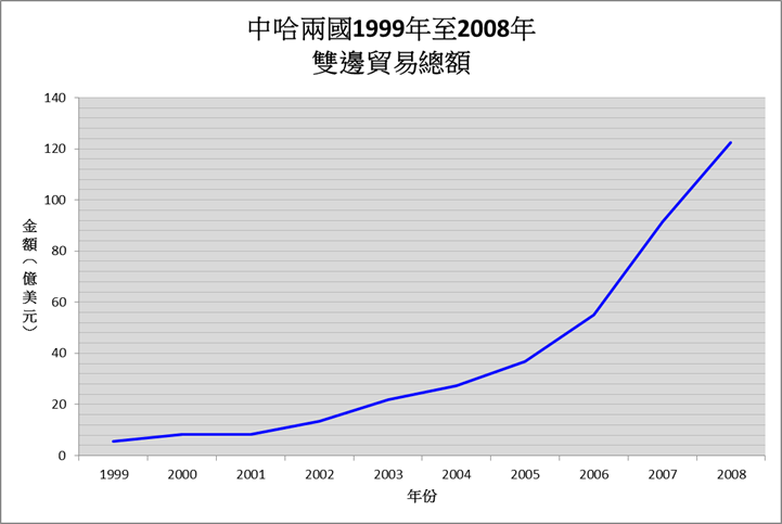 Chinese-Kazakh bilateral trade; Reference:[1]